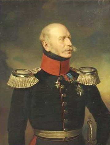 Ernest Augustus I, king of Hanover